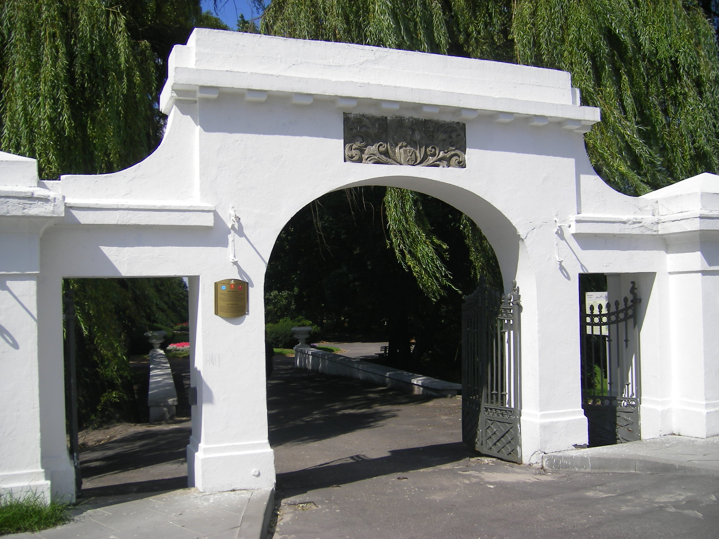 Gate of Town Park, Zamość